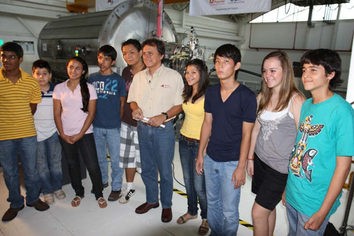 Dr. Franklin Chang with the students after the scenes were shot in Ad Astra Rocket Company.